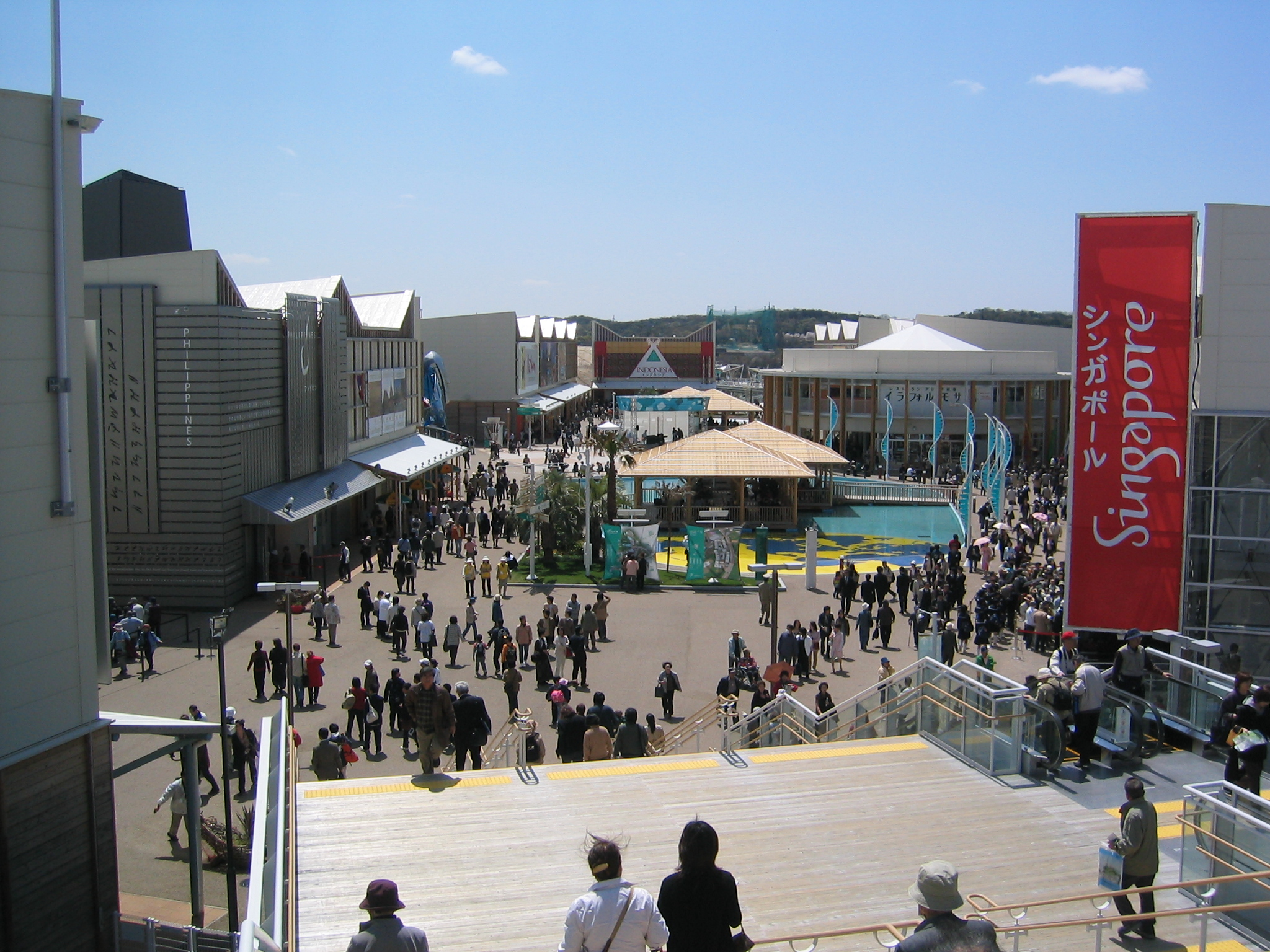 Expo 2005 Global Common 6 Pavillions in Aichi Prefecture